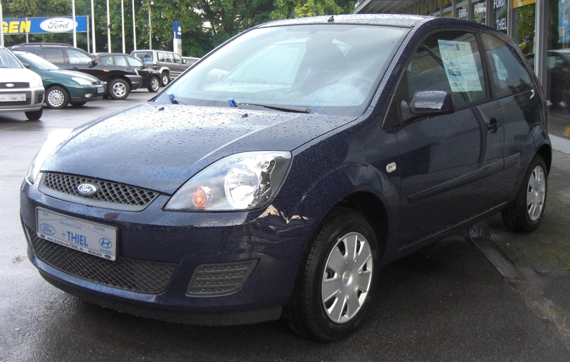 Ford Fiesta Mk5 facelift